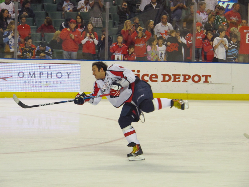 Alexander Ovechkin warming up before taking on the Florida Panthers in Sunrise, FL.